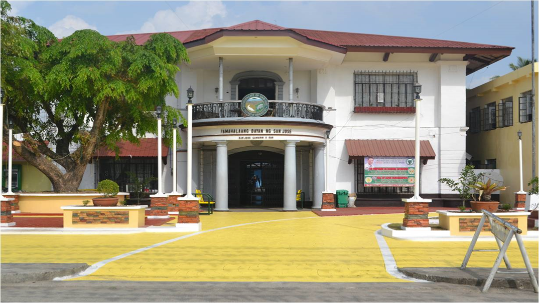 Main entrance to the San Jose Municipal Building. Bikol Central: Iyo ini an hulwang na entrada palaog sa munisipyo kan San Jose.